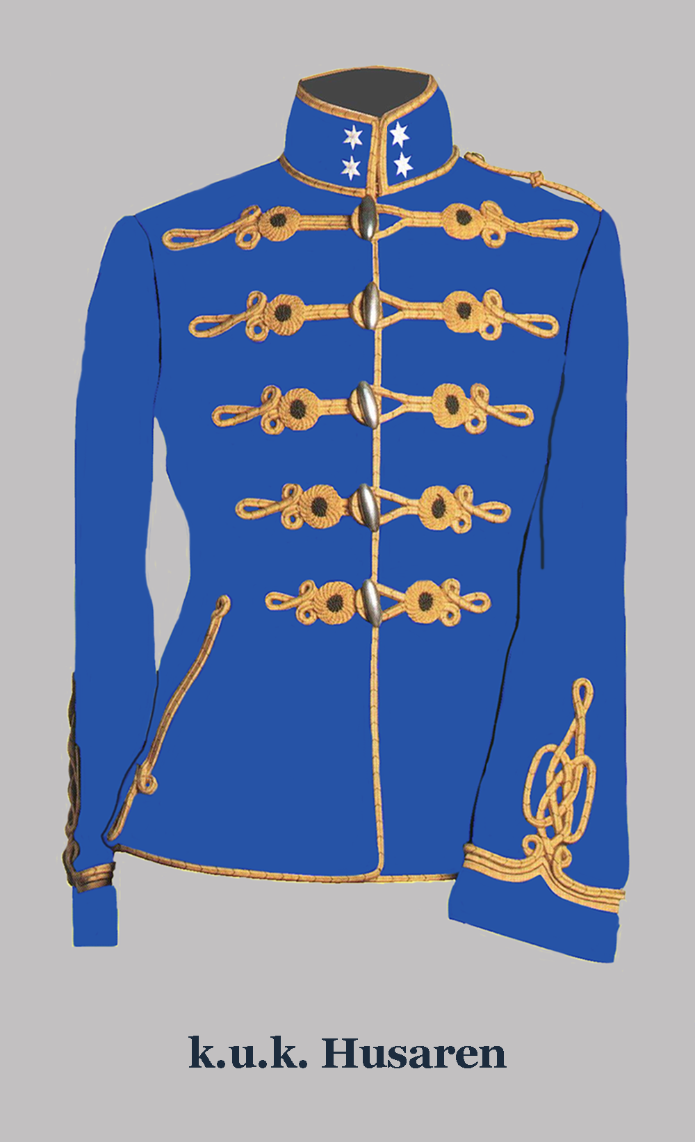 Light-Blue Tunic of a Corporal of the k.u.k. Hussars